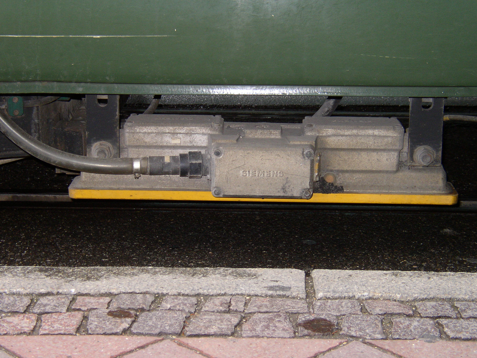 Transmitter for "inductive train safety" of a GT4 tram.